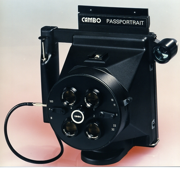 Cambo MultiShot, passportrait